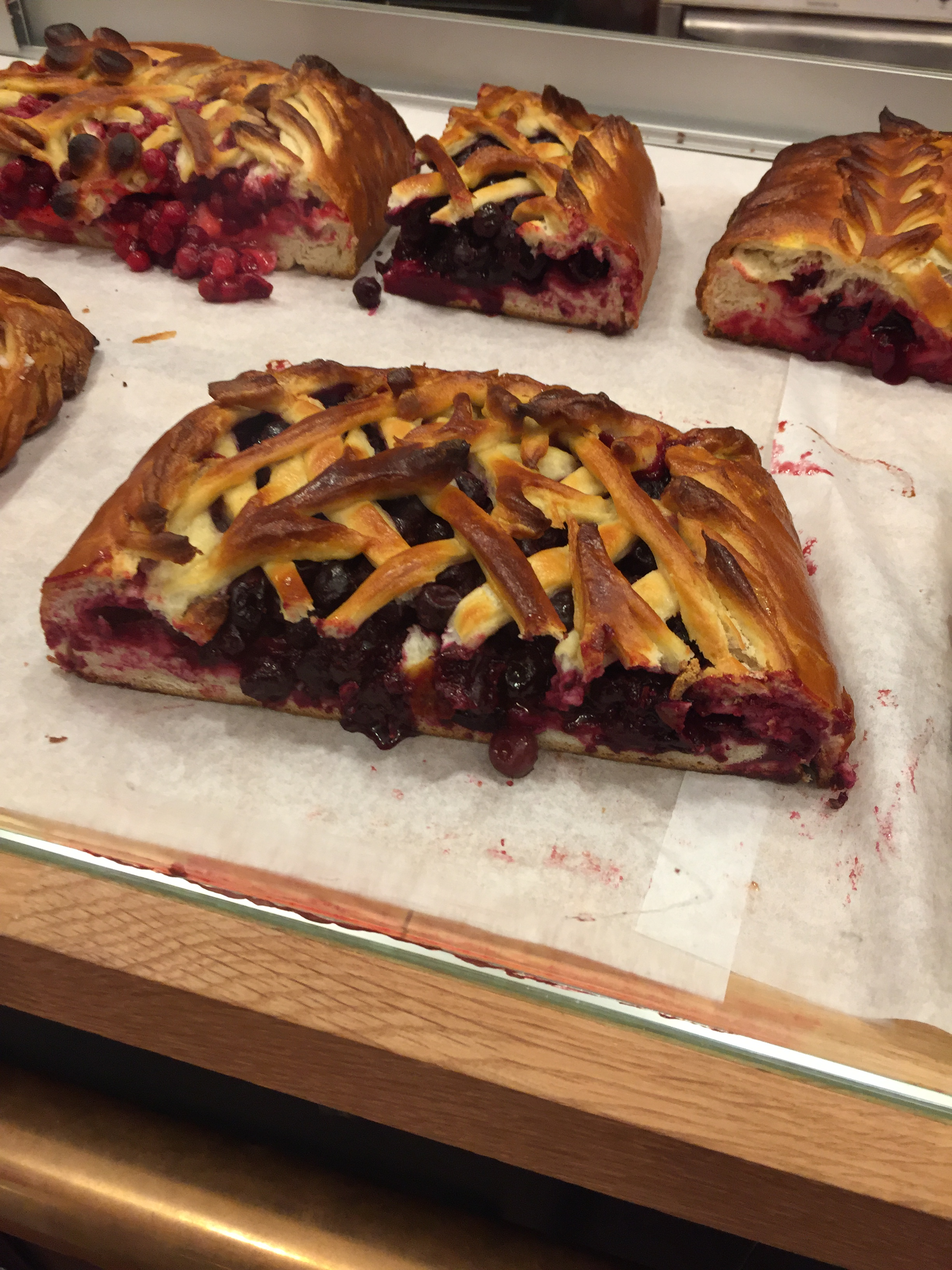 Pirog from Stolle - berry (sweet)